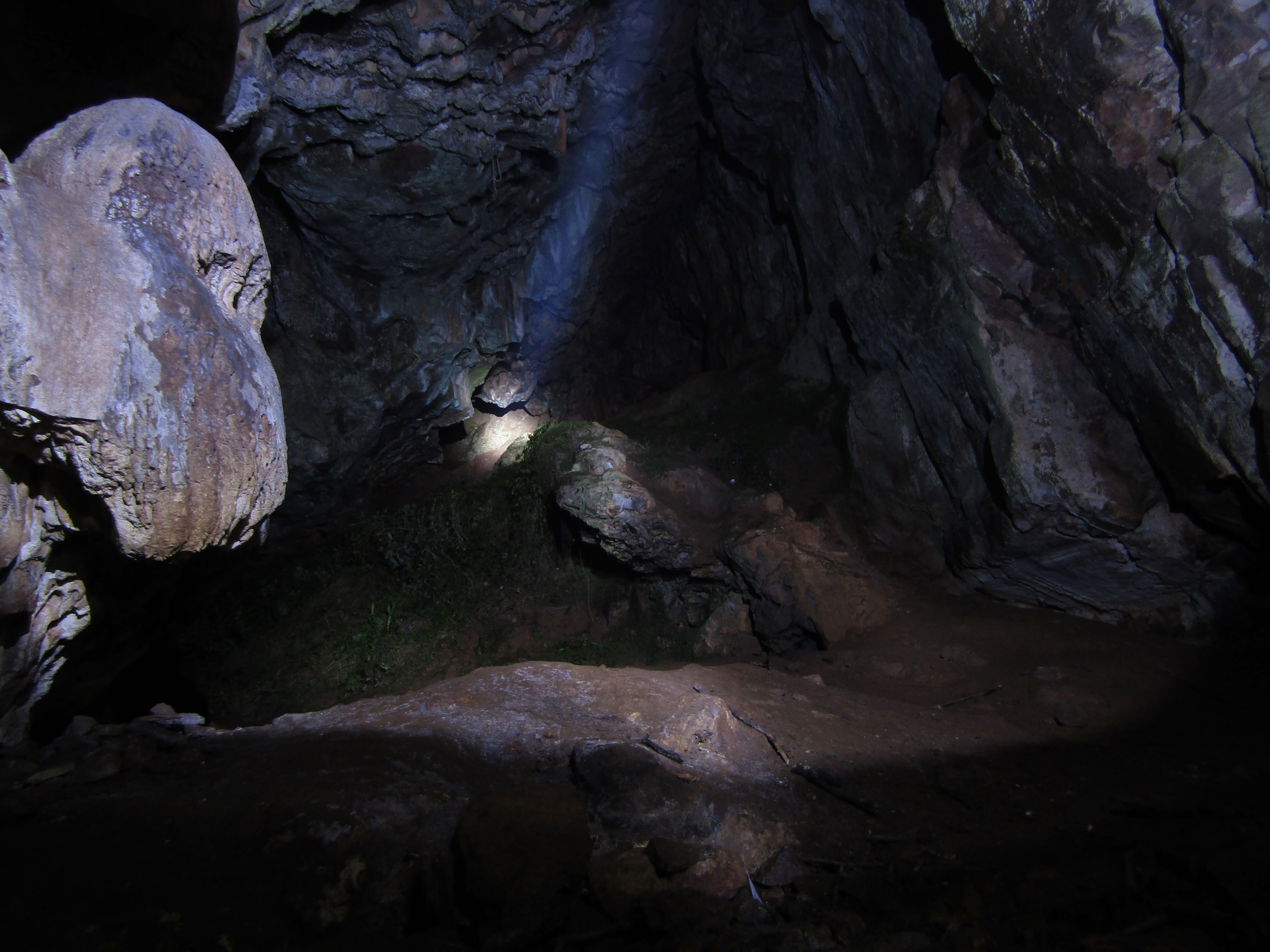 Ash Hole Cavern, looking towards the natural entrance. A large stalagmite can be seen, illuminated on the left. This image was taken at night and illuminated with a torch.